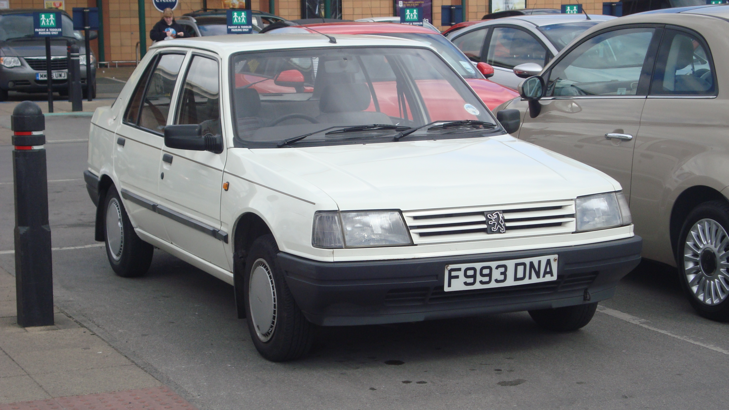 A very nice car, can't remember the last time I saw a 309